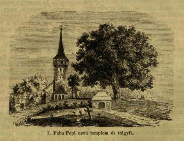 This is a photo of a historic monument in județul Hunedoara, classified with number HD-IV-m-B-03502 (Horea's Sessile oak)